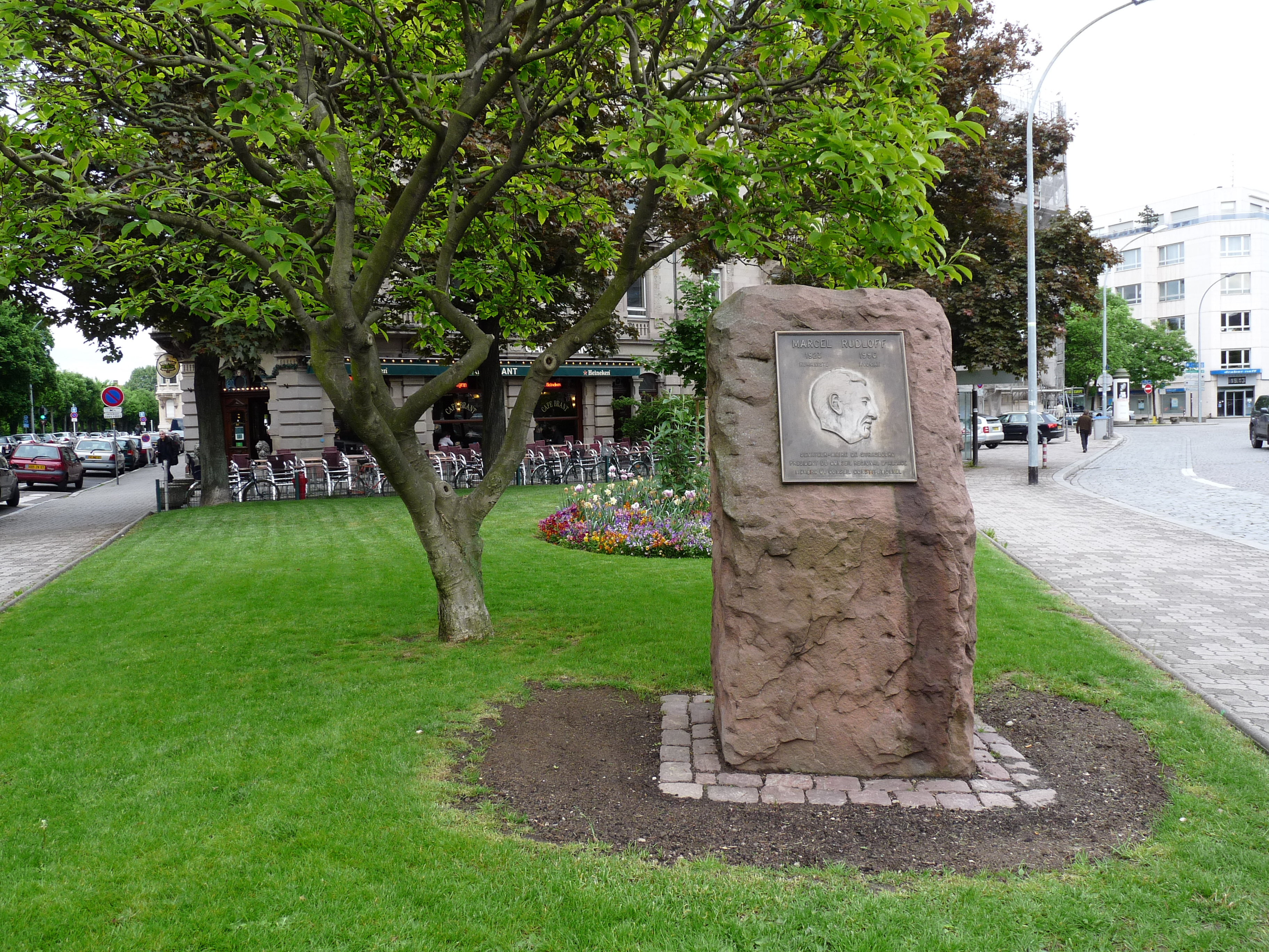 Marcel Rudloff memorial in Strasbourg